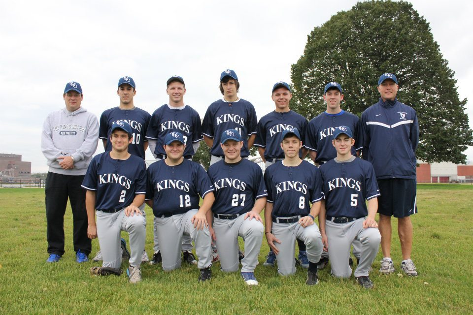 October 1st, 2011 vs. NYU